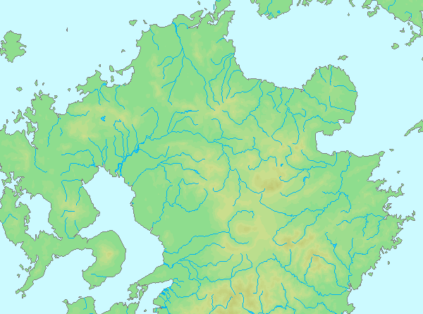 Topographic map of Northern Kyushu, Japan.